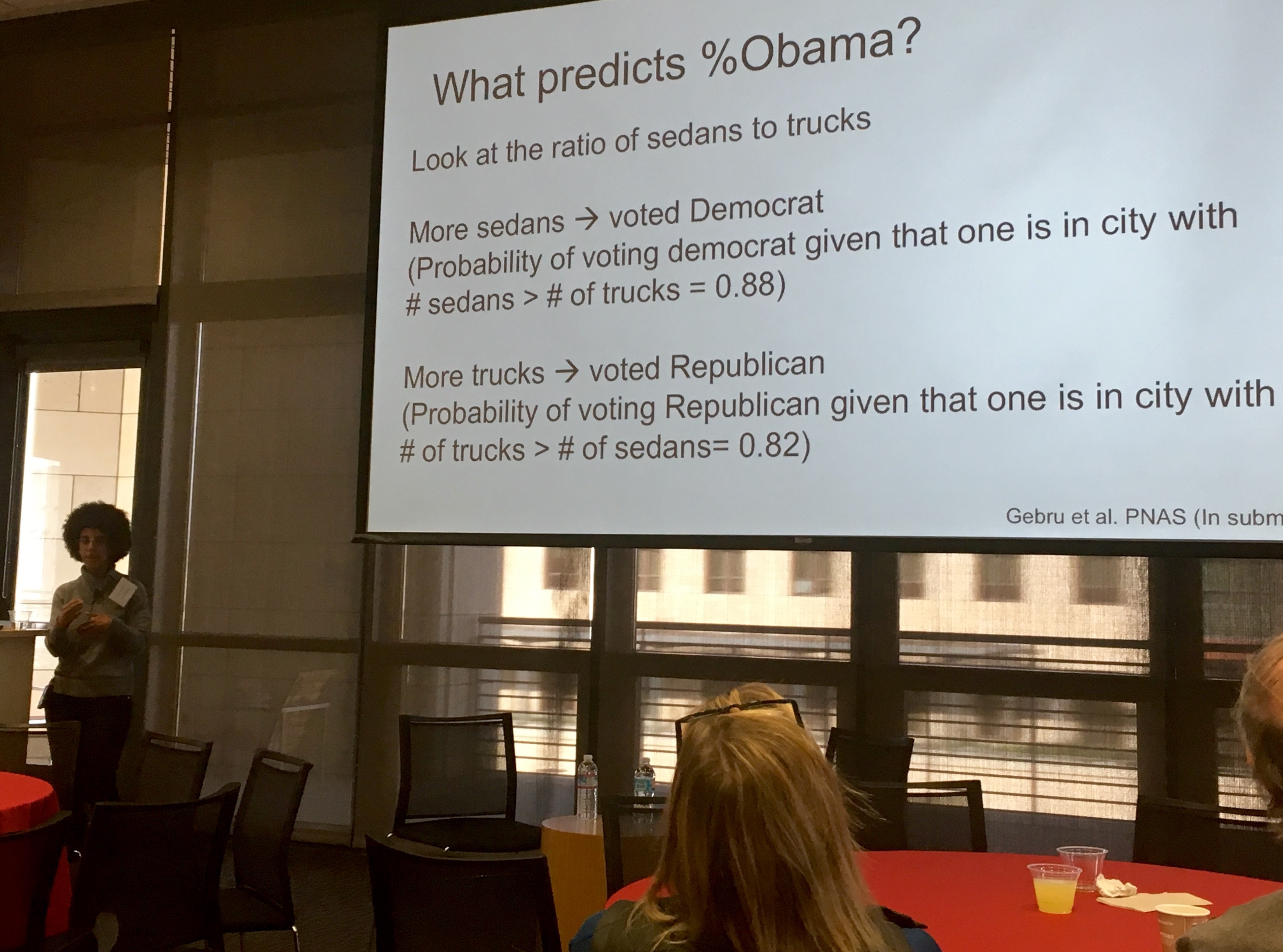 Timnit Gebru wants to replace the U.S. Census (which costs $1B/year to implement) by simply analyzing the cars seen in Google Street View images. After processing 22 million observed cars, she found some fascinating things, like the predictive power of "the sedan/truck ratio" for political party. Republicans sure like trucks! More findings in the comments below. From the AI in Fintech Forum today at Stanford ICME.